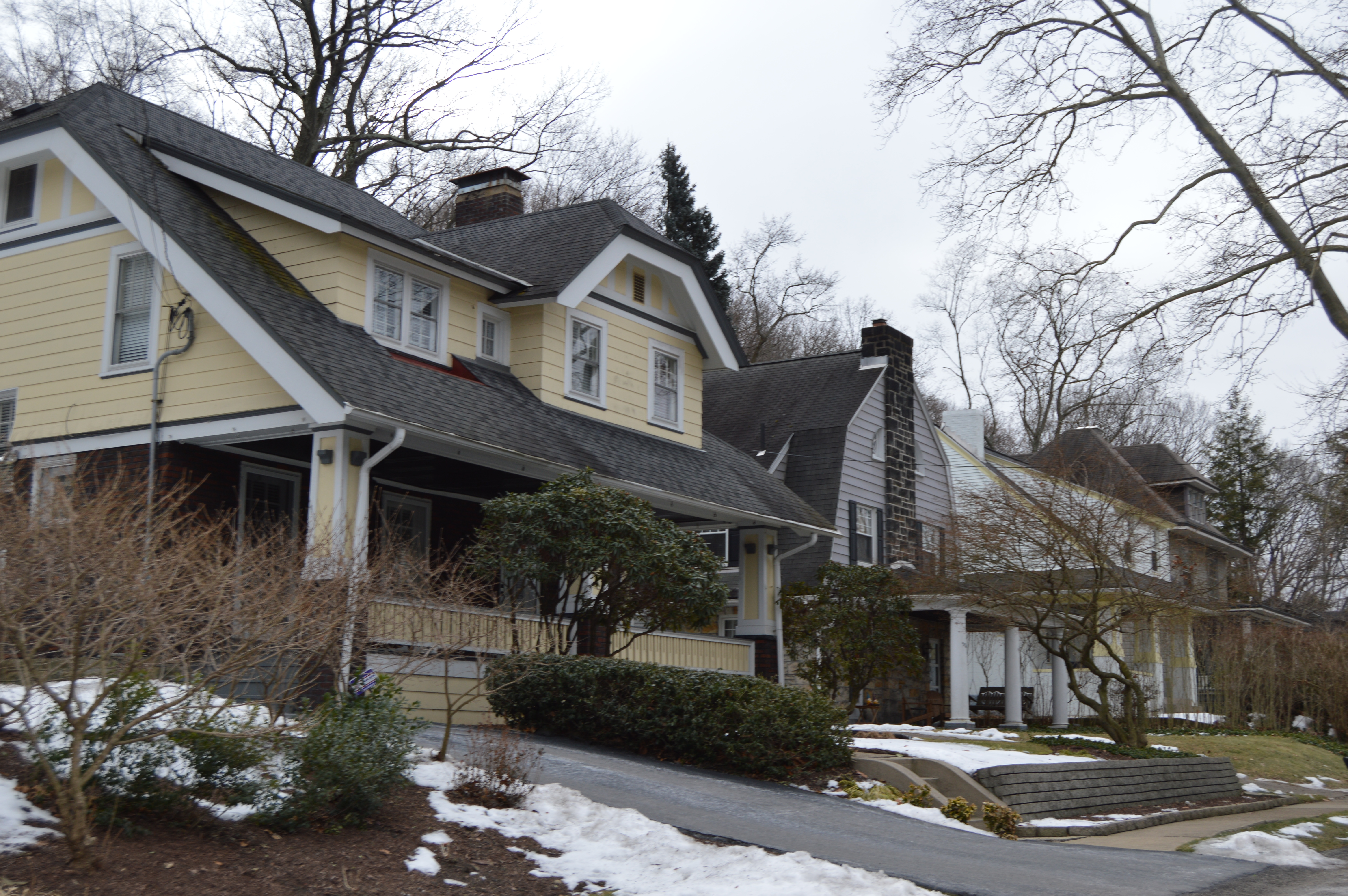 Houses on the eastern side of Walnut Road just south of Avon Park in Kilbuck Township, Allegheny County, Pennsylvania, United States.